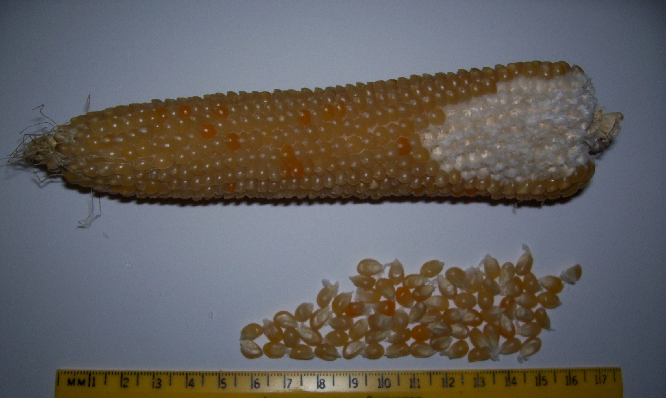 A partially shelled cob of popcorn. This cob grew from a plant near Image:AlbinoPopcorn.jpg. This cob came from this group of cobs: Image:PopcornCobs2007.jpg